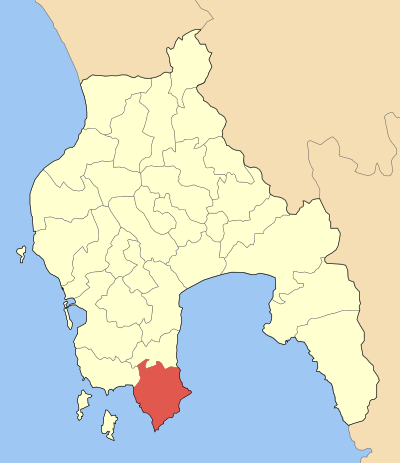 Locator map of Koronis municipality (Δήμος Κορώνης) at Messinia perfecture, Greece.